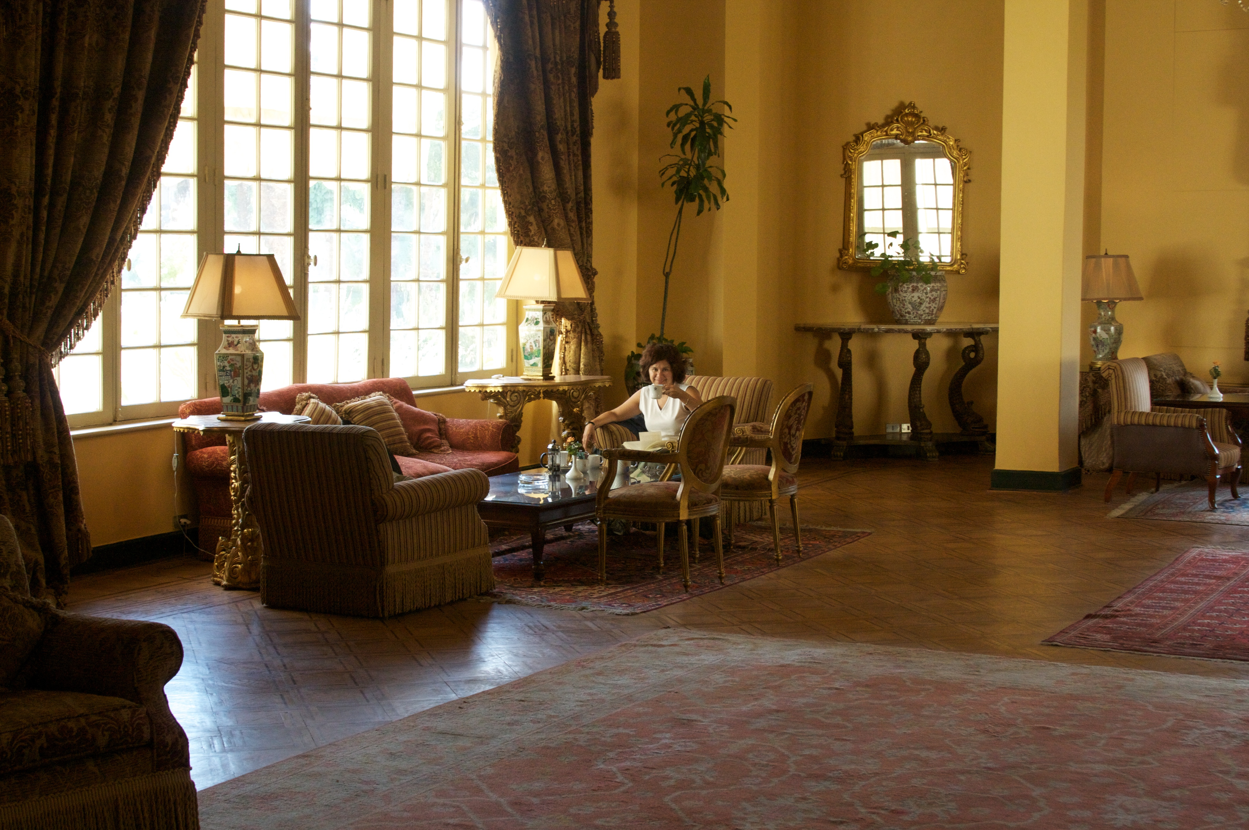 Winter Palace Hotel in Luxor, sitting room of the kings of Egypt approx 1865 -1909.